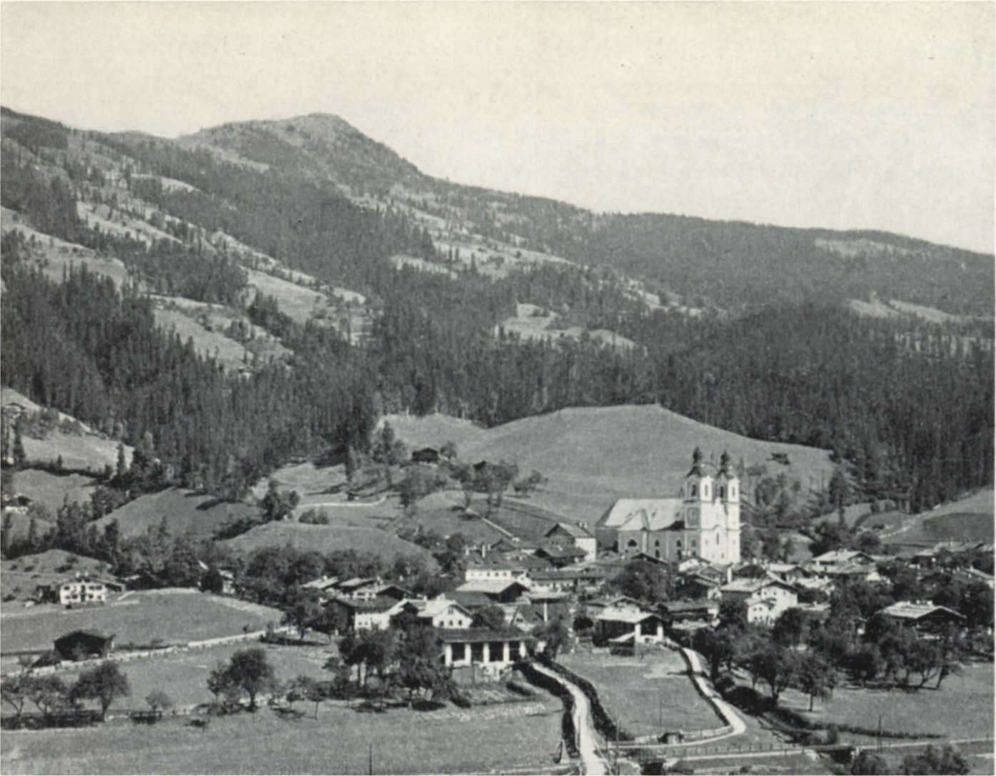 the austrian village of Hopfgarten im Brixental around 1898